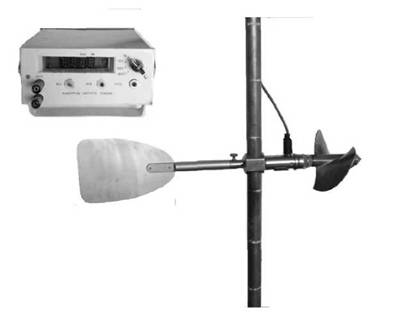 Hidrometrinis suktukas su strypu